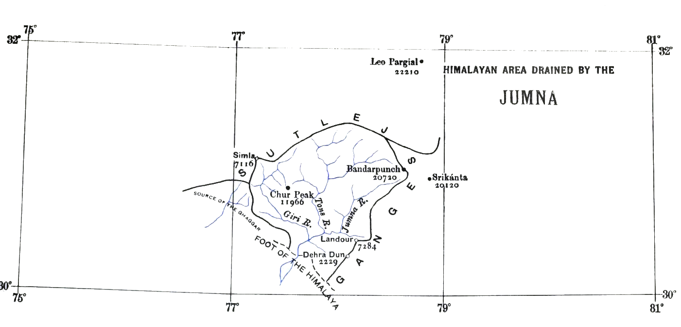 Map of the catchment zones for the Yamuna river